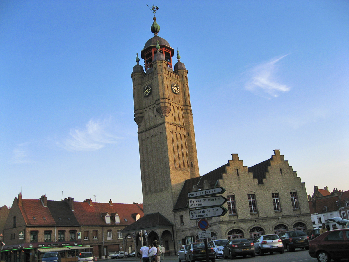 The beffroi of Bergues, Nord-Pas-de-Calais, France